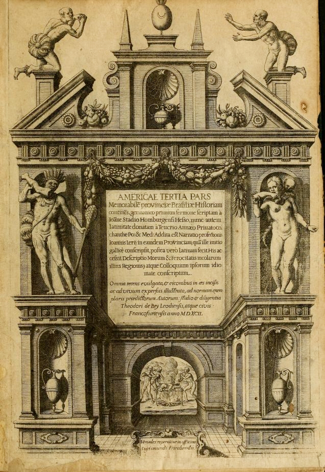 Theodorus de Bry, Americae tertia pars (1592) title page